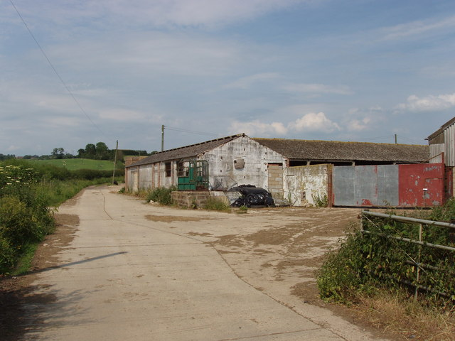 Leatherslade Farm buildings, near Oakley. A group of farm buildings just by the B4011 road.